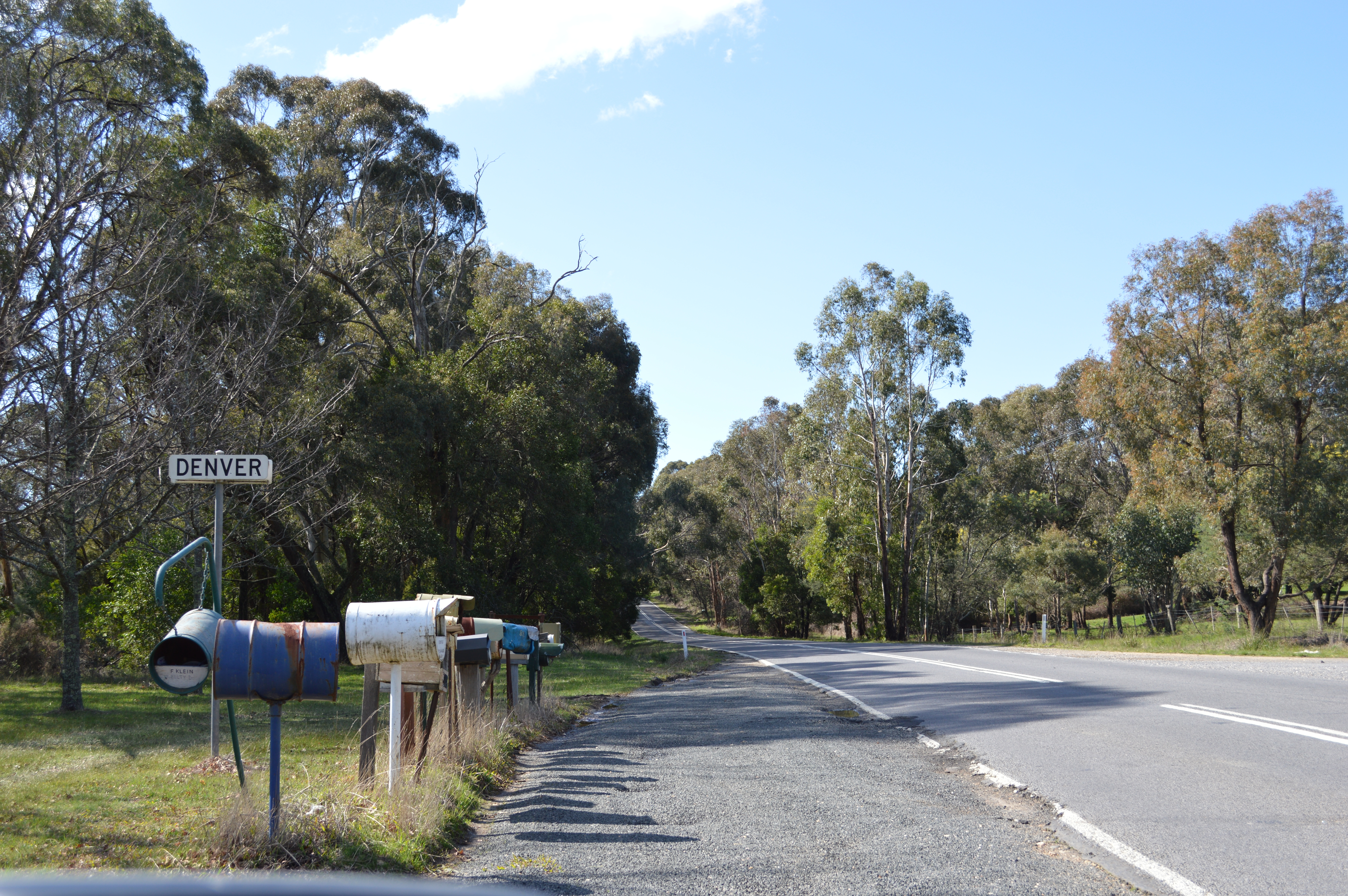 Post boxes and locality sign at Denver, Victoria